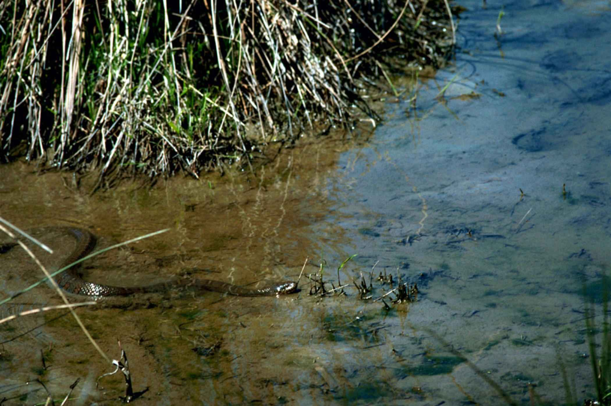 Image title: Northern water snake in water Image from Public domain images website